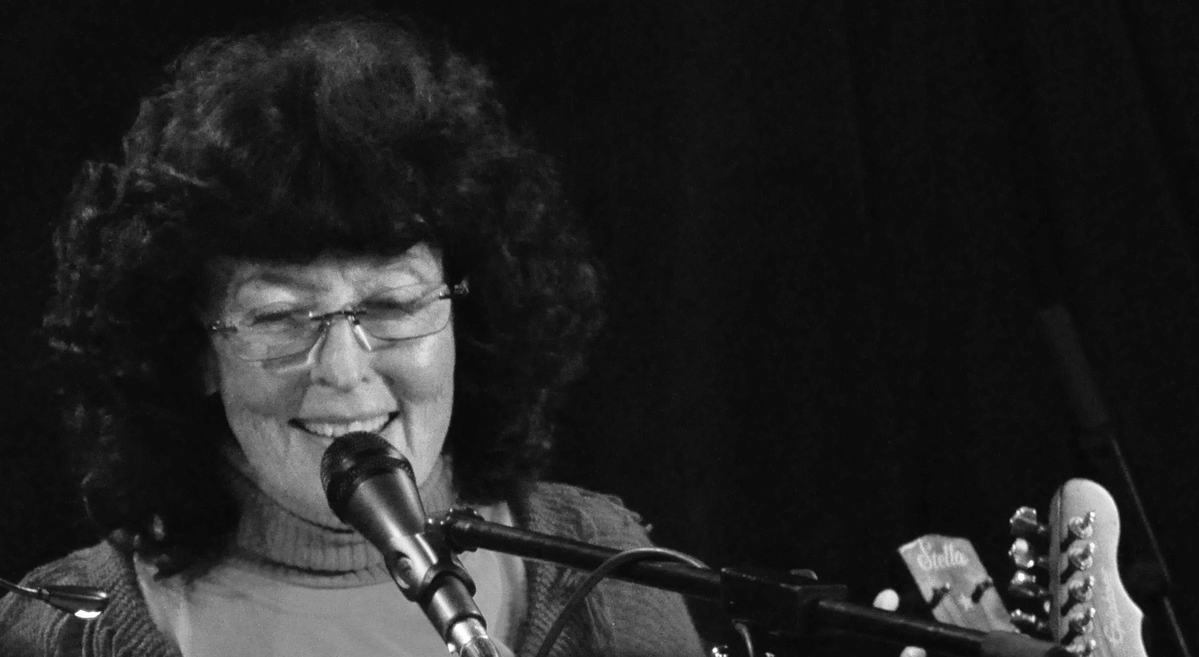 Linda Perhacs performing at the Fremont Abbey, Seattle, Washington, U.S., March 22, 2014.